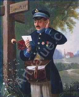 Carl Maria Seyppel (auch Karl Maria Seyppel, 1847 - 1913), Titel - Le facteur.jpg